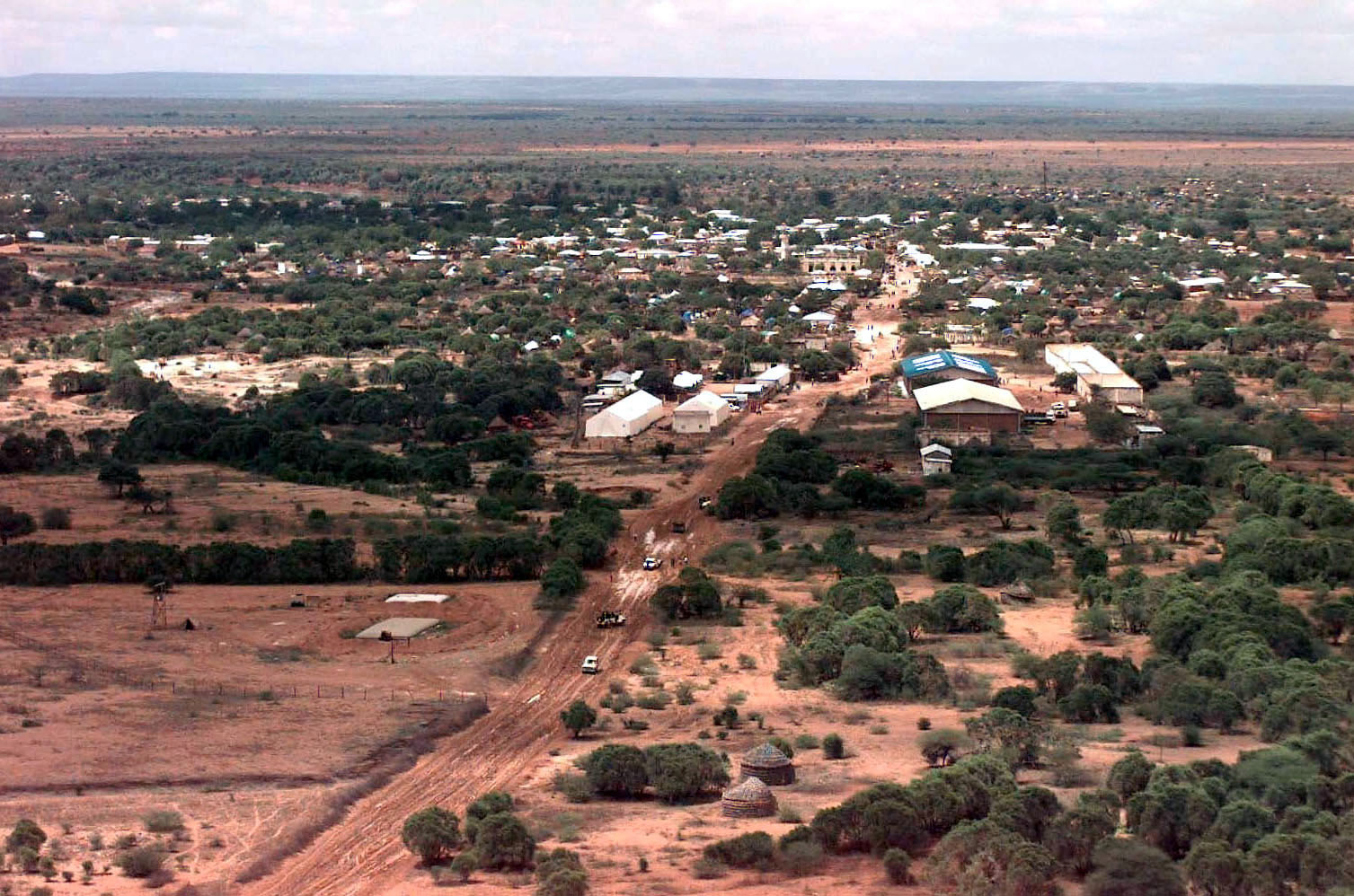 Aerial view of the Somali village of Bardera. Some vehicles are seen leaving the village on a dirt road that leads out of the town. The Botswana Army is being used to provide security for the humanitarian relief groups that are distributing food to the people of Bardera. This mission is in direct support of Operation Restore Hope.